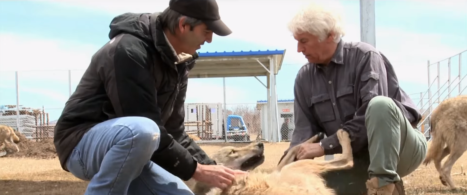 Screenshot of behind the scenes promotional video of Wolf Totem